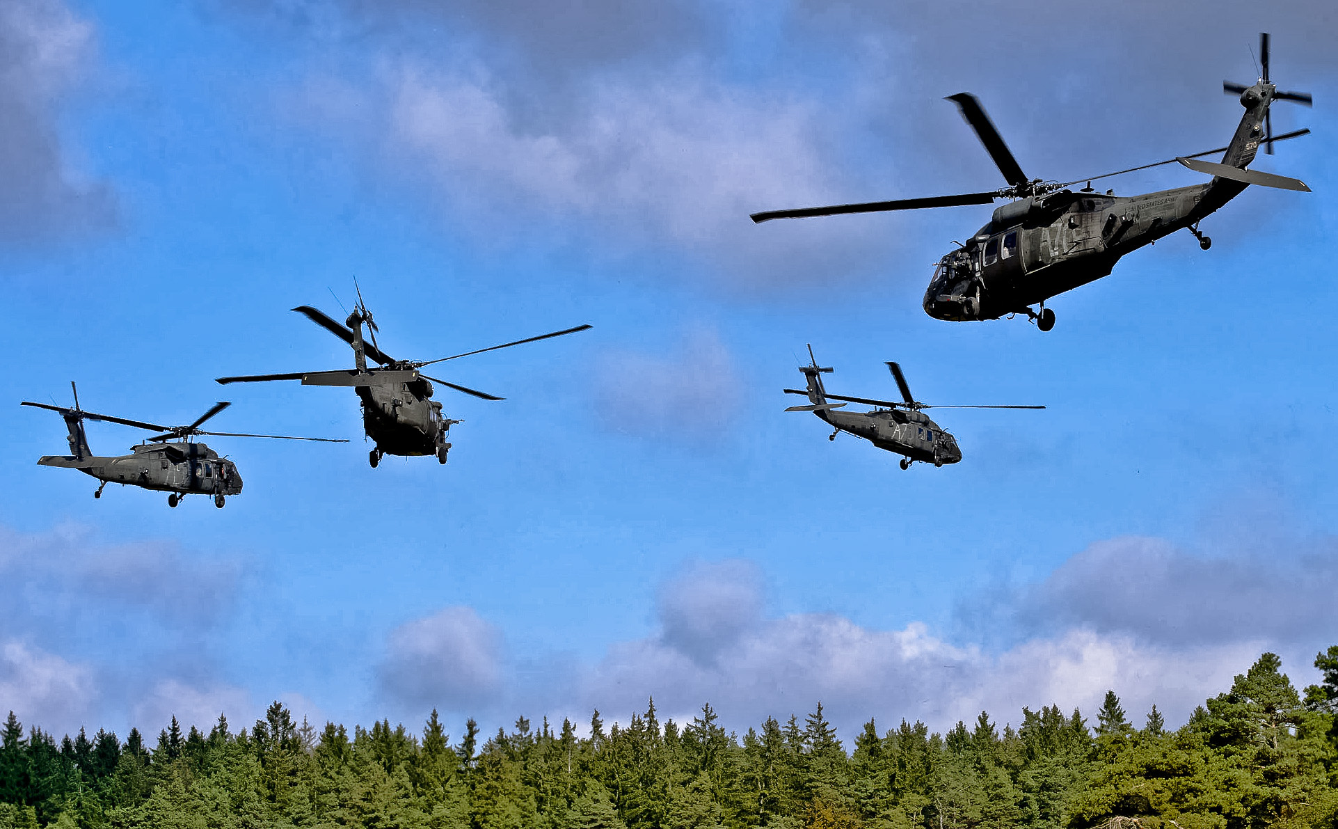 Four UH-60 Black Hawk helicopters provide air support for Soldiers conducting an air assault exercise as part of the Full Spectrum Training Event in Hohenfels, Germany, Oct. 14, 2011. The UH-60 crews are assigned to the 12th Combat Aviation Brigade-Europe. (photo appears to be enhanced)